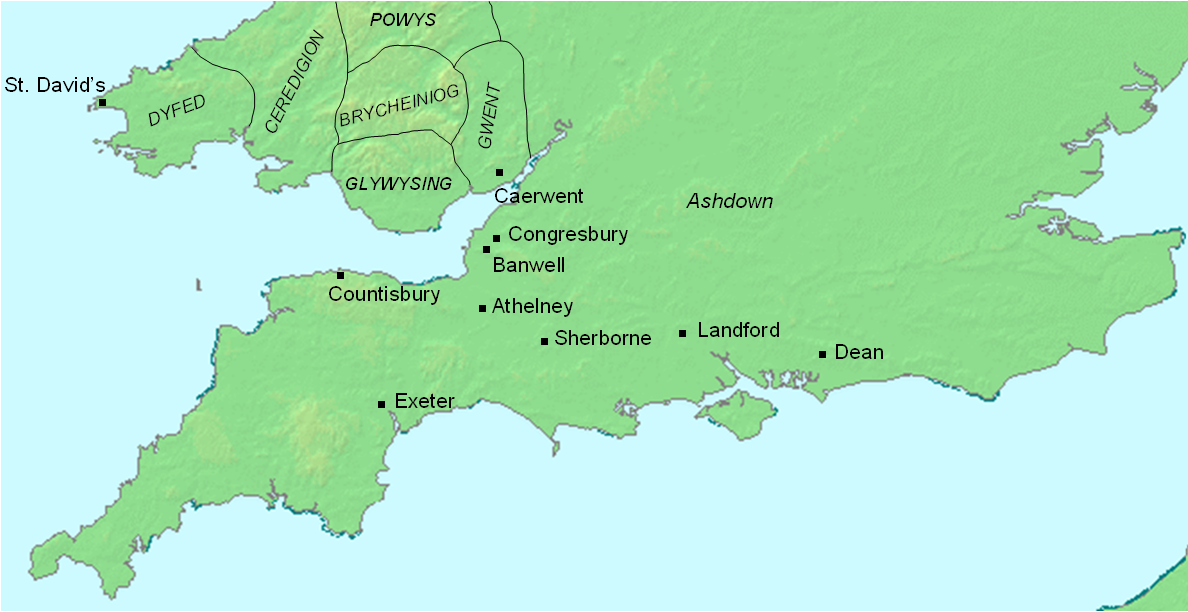 Map of southwestern England and south Wales, showing places visited by Asser. The file was created using DMIS. On that site it is stated that "We do not claim copyright on the images, so you can use them for Wikipedia." Summary Map of southwestern England and south Wales, showing places visited by Asser. The file was created using DMIS. On that site it is stated that "We do not claim copyright on the images, so you can use them for Wikipedia."